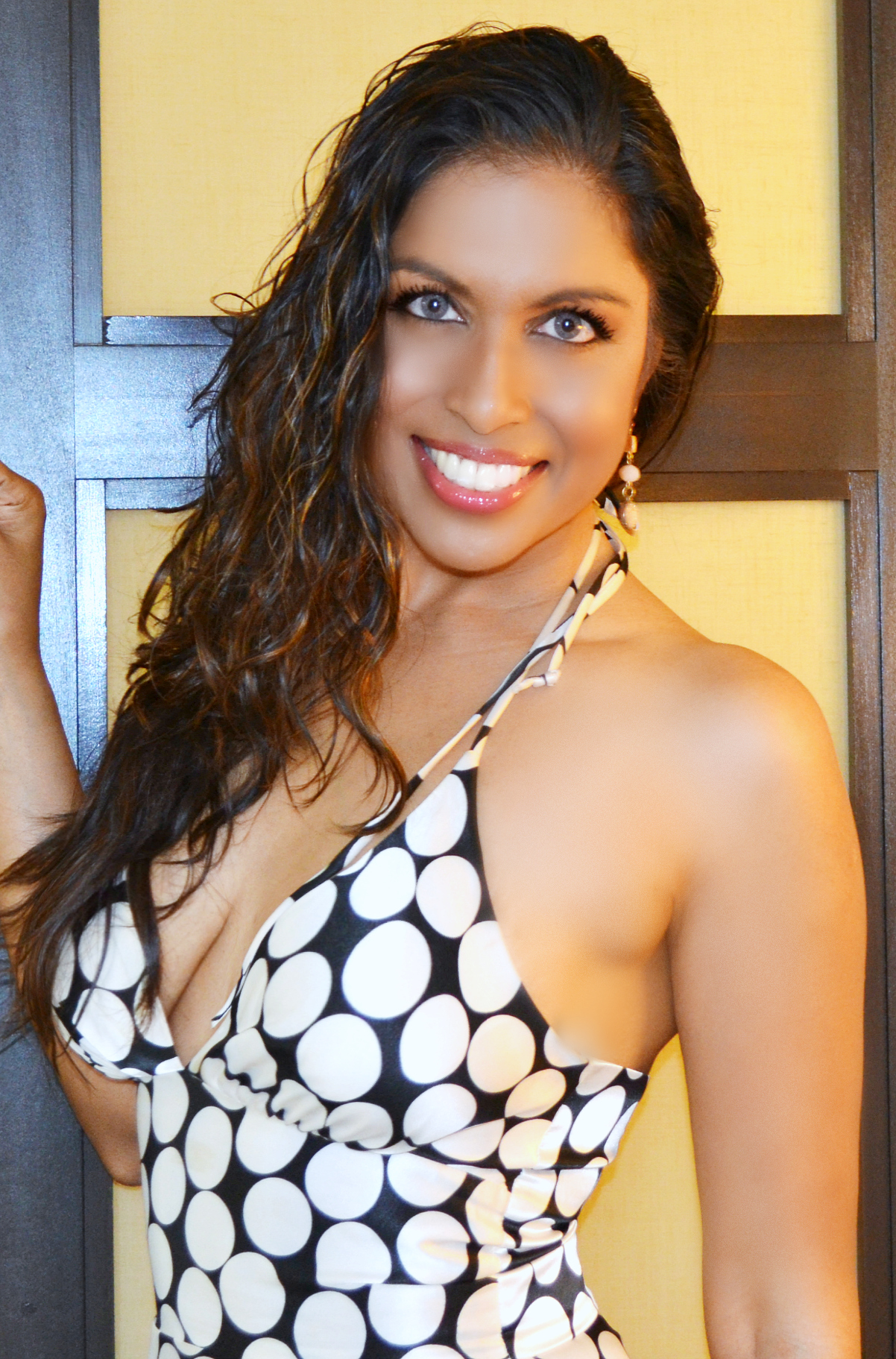 Ria Persad Carlo, Wings Model Management